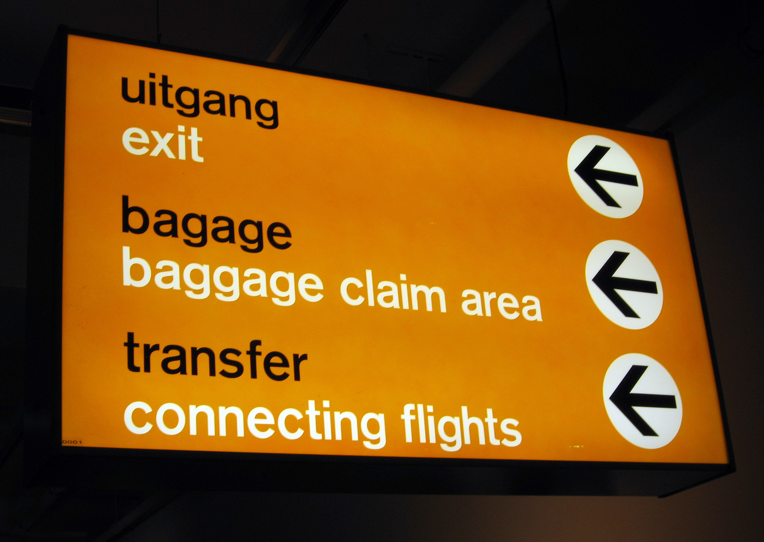 Signpost from Schiphol airport, the Netherlands. Design by Benno Wissing from Total Design.